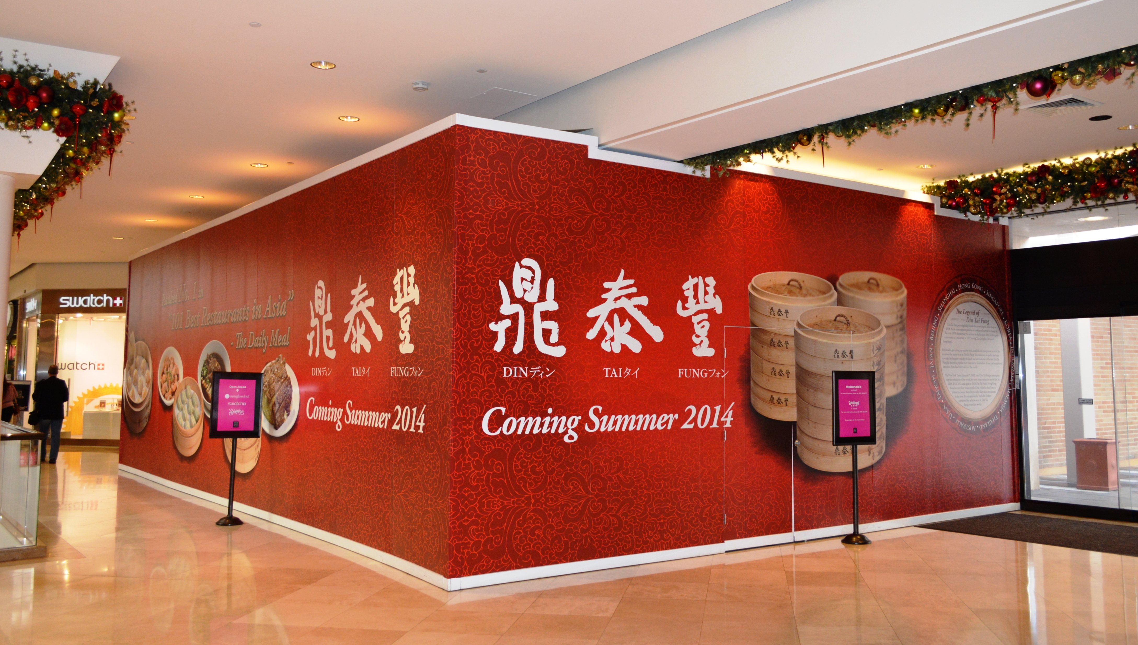 Din Tai Fung's new location (to open in 2014) at South Coast Plaza in Costa Mesa, California, U.S.A. This is where McDonald's used to be.